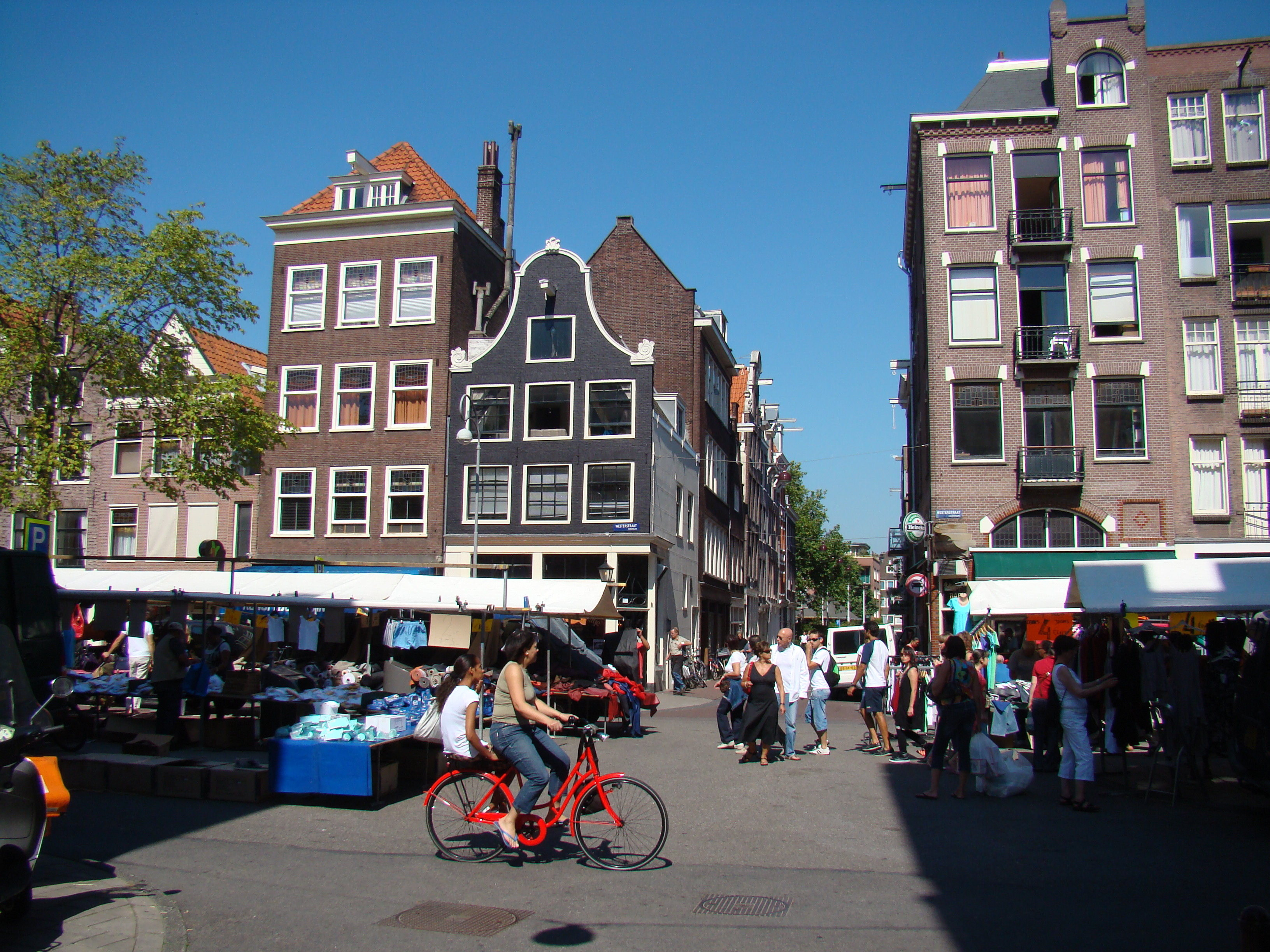 Westermarked in the Westerstreet at Amsterdam